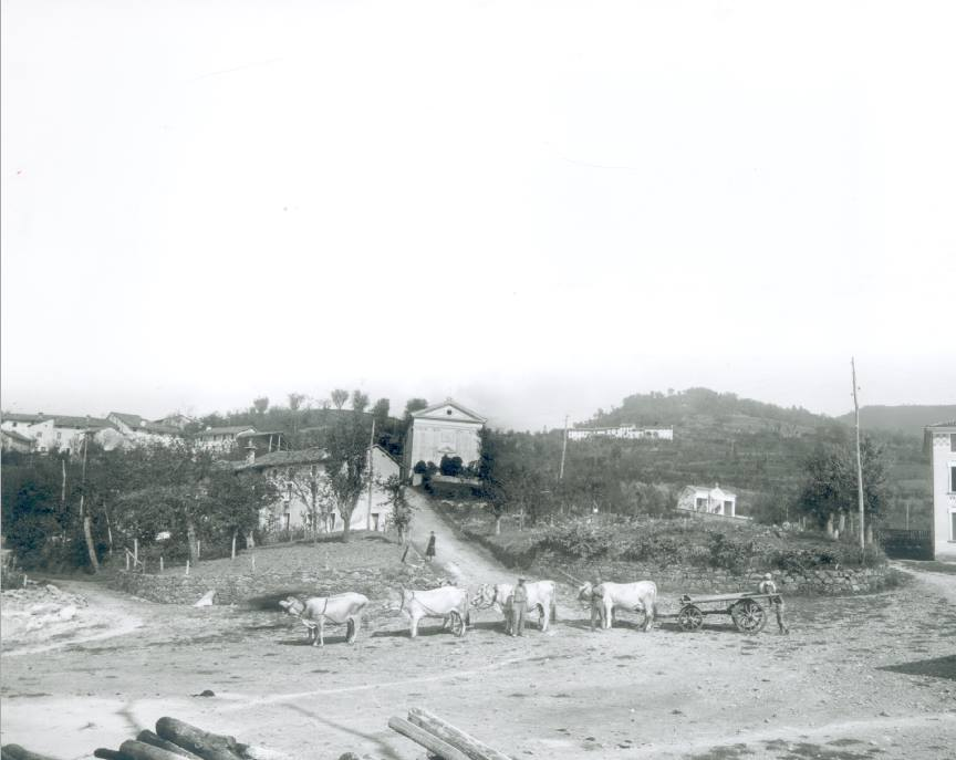 Muzzolon Chiesa san Rocco